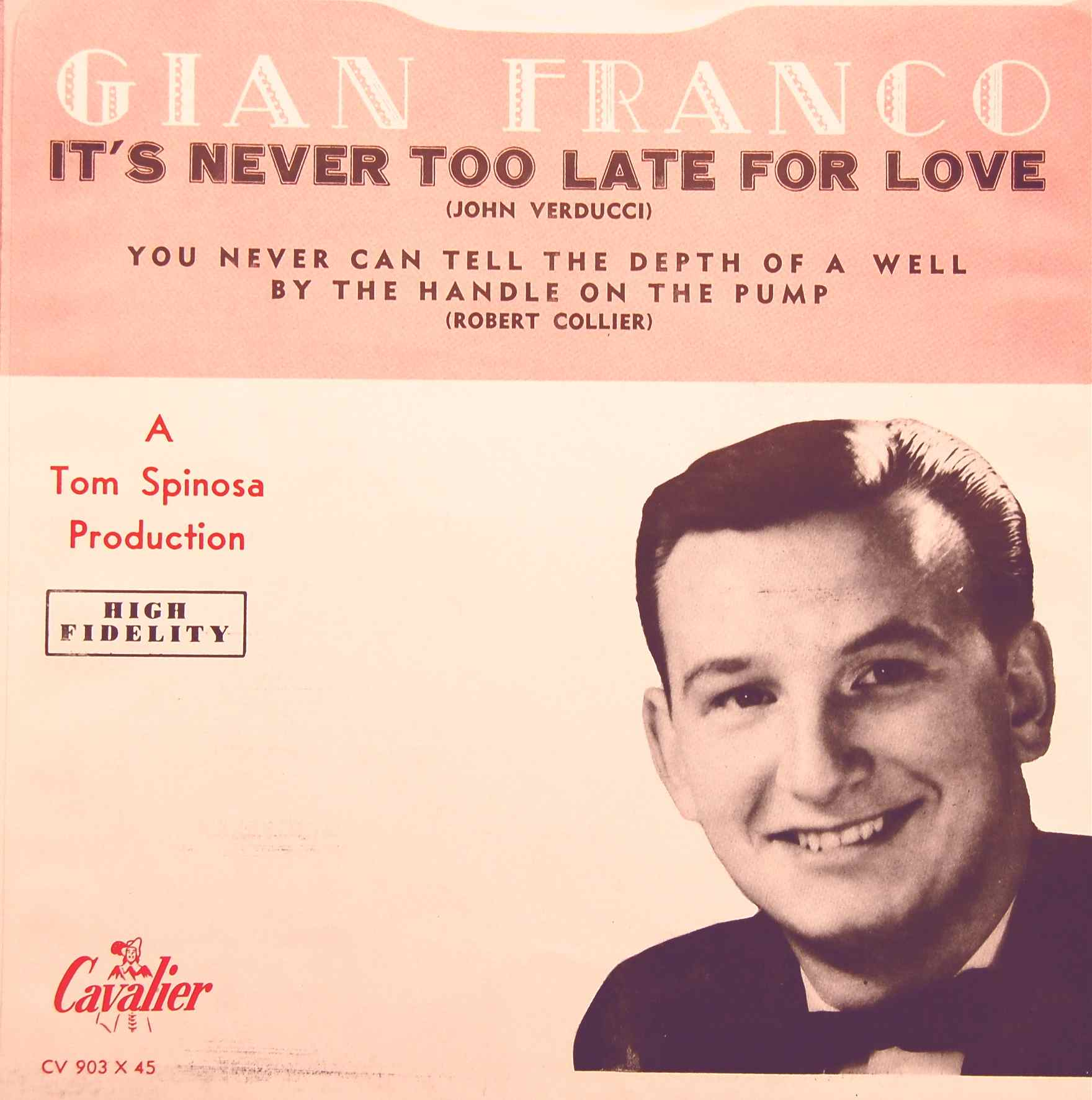 Cavalier 903 sleeve. It's Never Too Late for Love